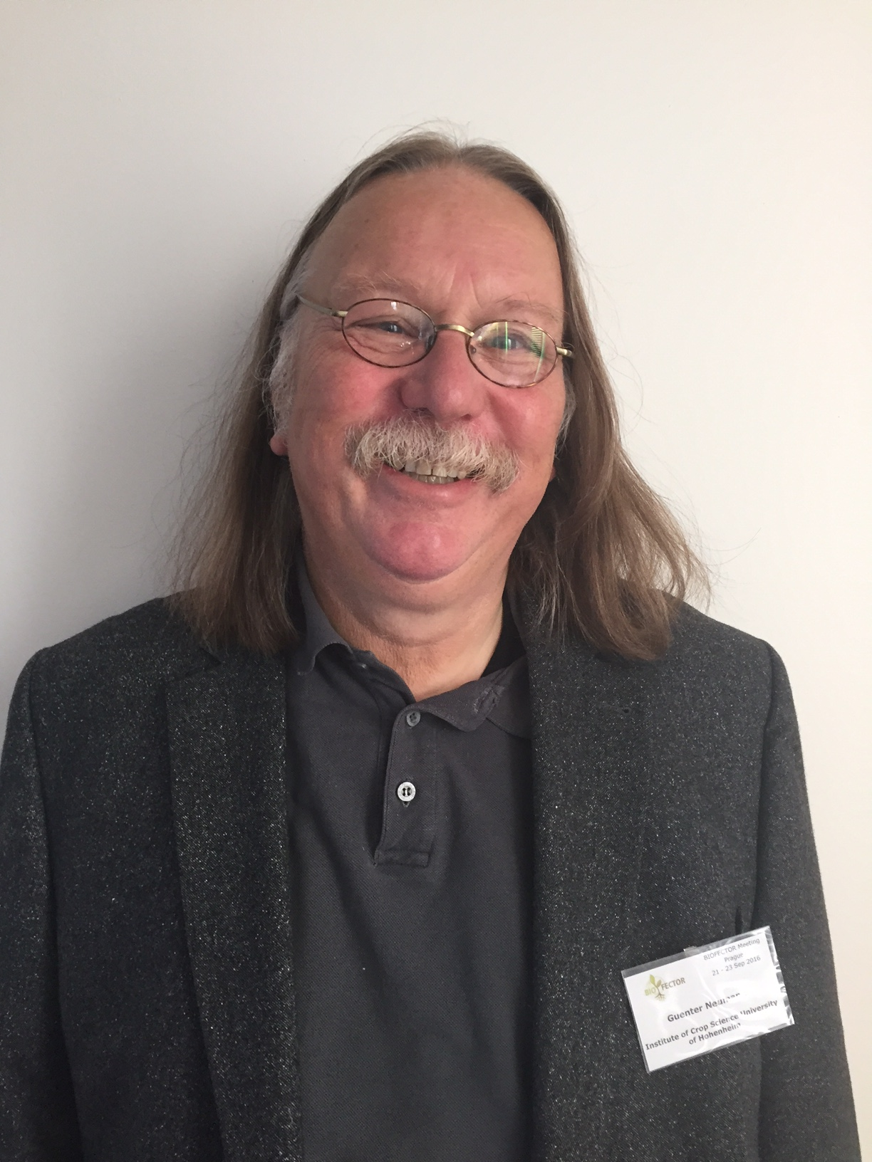 Guenter Neumann Prof. at University Hohenheim and Scientific Leader of the EU Project BIOFECTOR